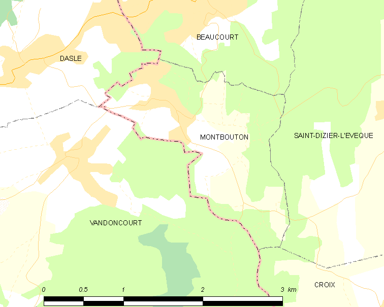 Map of French municipality Montbouton